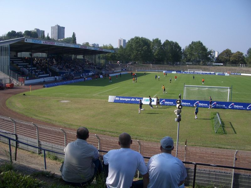 Frankfurt, Stadion am Bornheimer Hang (home stadium of FSV football club)